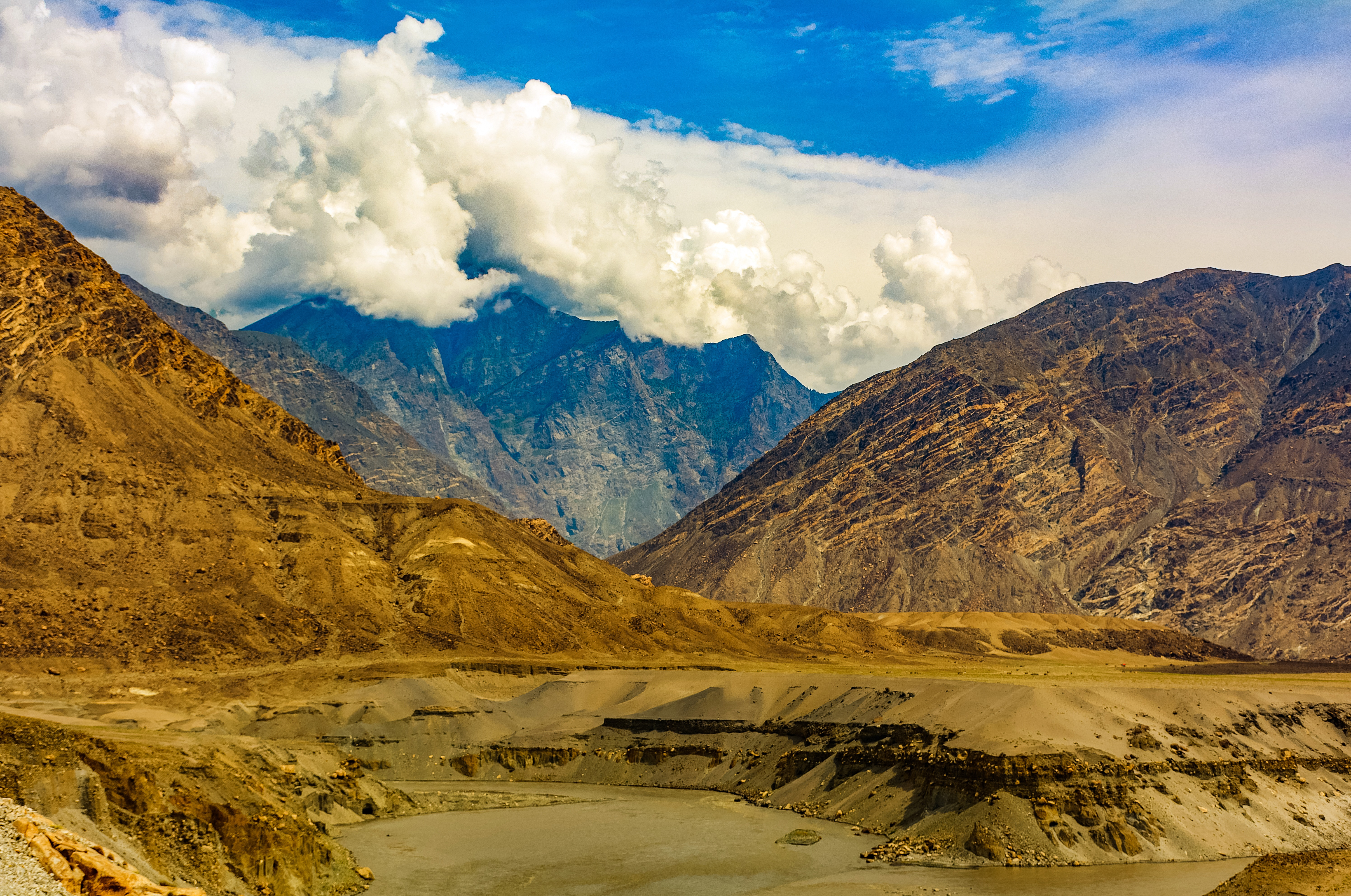 This place of interest is the unique venue where three great mountain ranges of world make a knot. Himalayas, Karakoram and Hindu Kush, with their famous highest peaks (in Pakistan, and top 2, 3, & 4th in the entire world), Nanga Parbat, K-2 and Trich Mir, meet here and at almost on same place River Indus, flowing down from lofty mountains of Skardu, joins with river Gilgit, one its main tributaries.